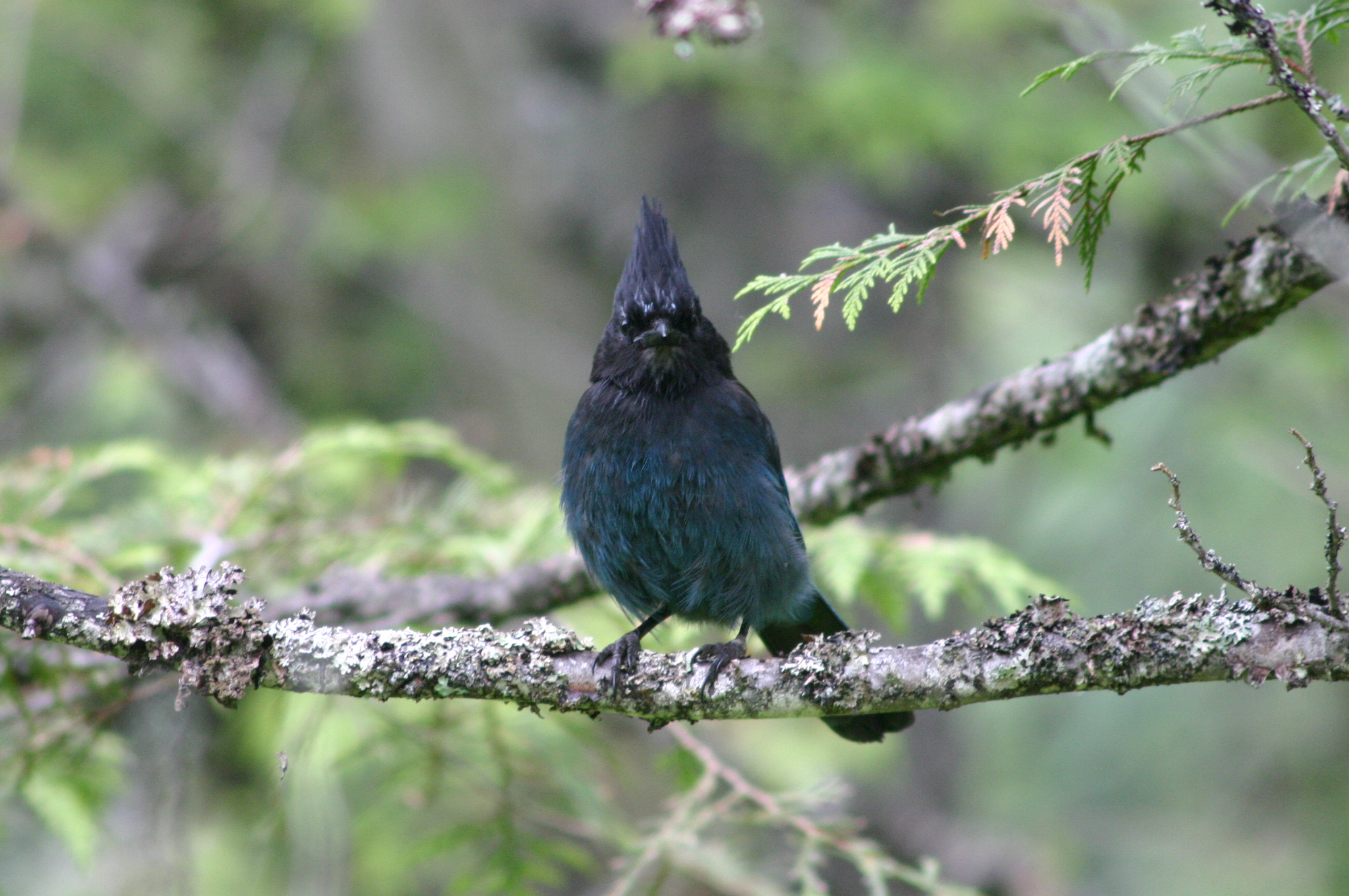 Stellar's Jay from the front.